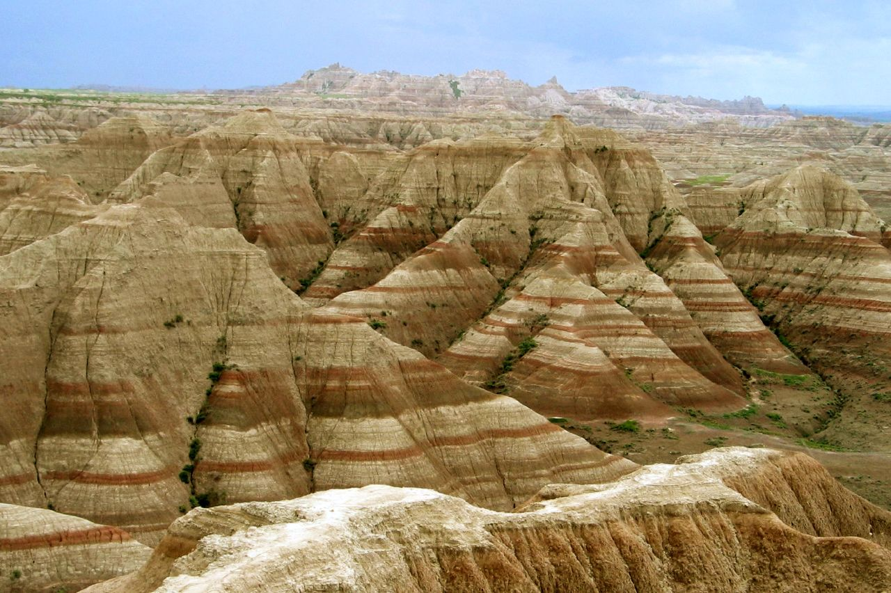 A panoramic view of the Badlands National ParkBadlands